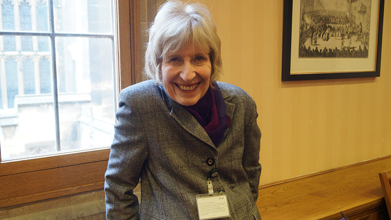 Baroness Thomas of Winchester